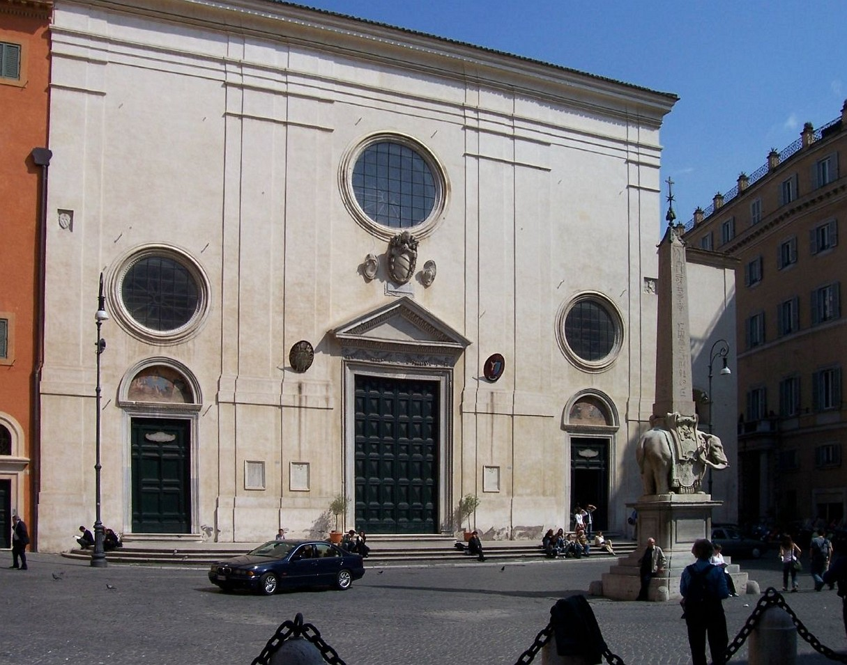 Santa Maria sopra Minerva, Roma, Italy